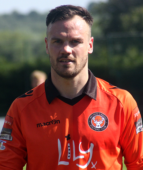 Matt Somner in action for Walton Casuals in 2015.